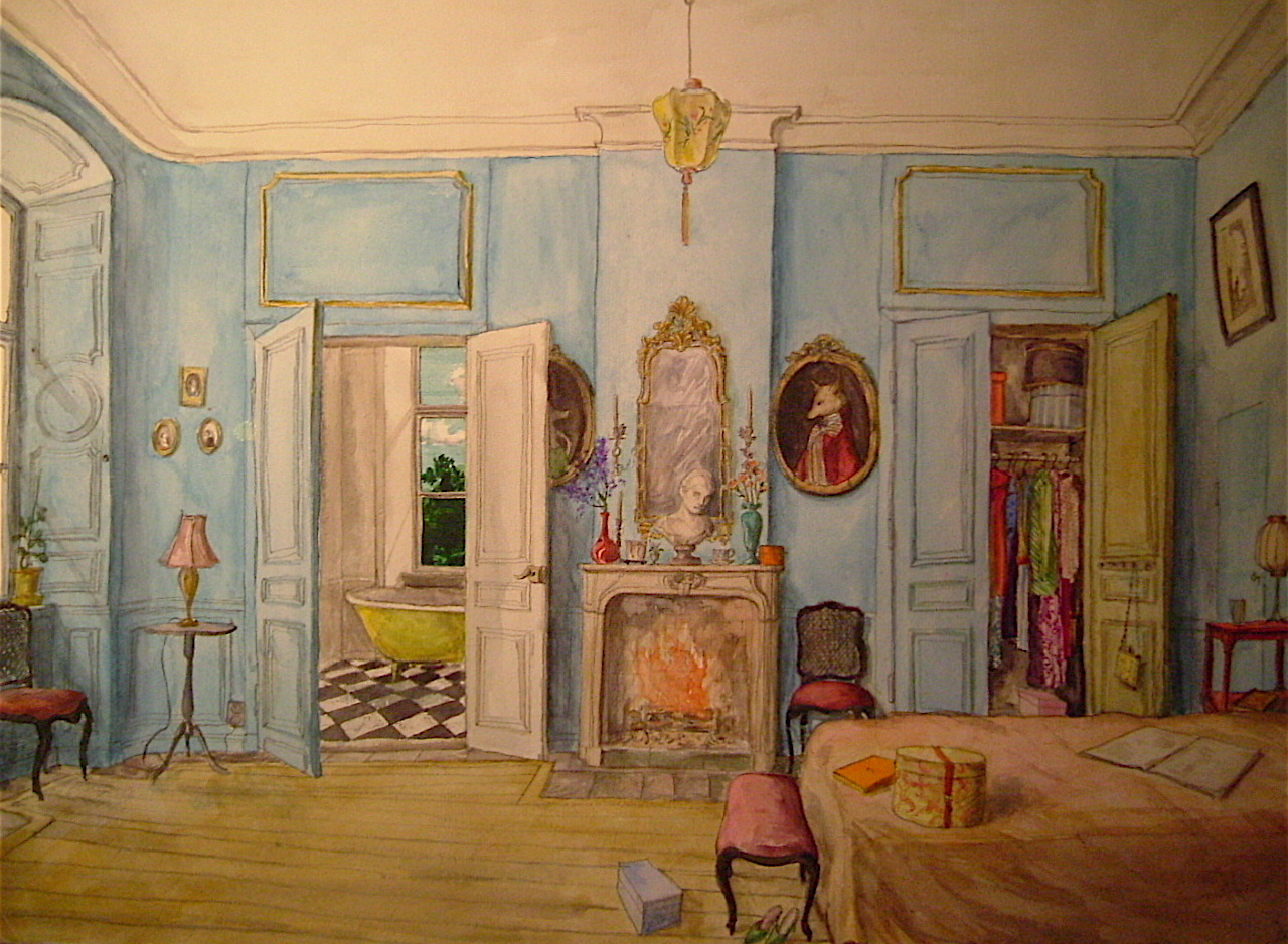 Blue bedroom